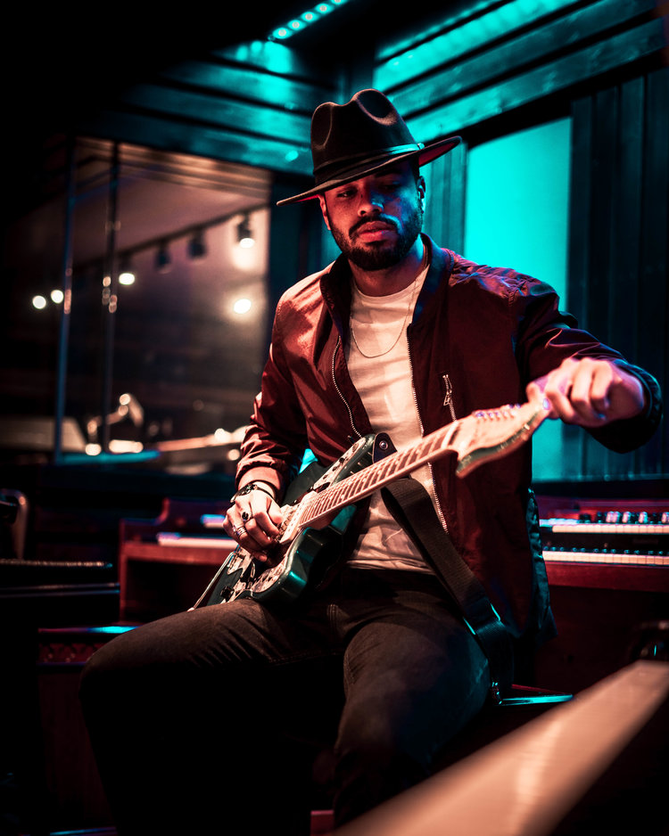 Headshot of Sebastian Lane at Make Believe studios in Omaha Nebraska. Photo taken by Blake Harris.